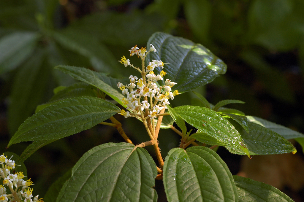 Leandra subseriata photographed at the San Francisco Botanical Garden at Strybing Arboretum